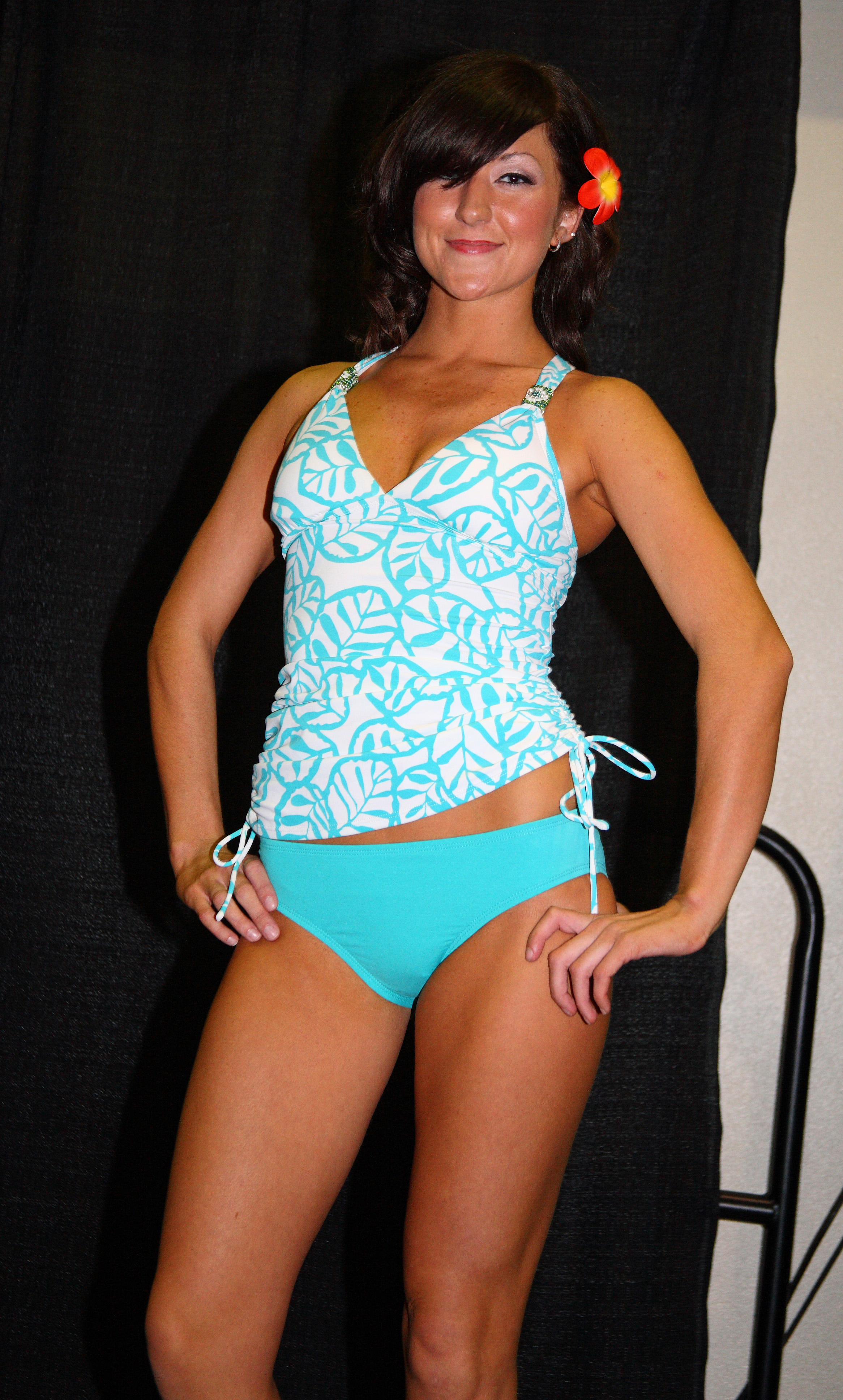 In April 2011 I was invited to shoot a fashion show which was part of a Spring Fling Woman's Show in Anchorage, Alaska. I guess they couldn't find any quality photographers! The show was fun - it was sponsored by Run to the Sun, a local boutique that specializes in swimwear and tanning. Michelle, the owner, always finds some very lovely models, most of them with little experience but they did quite well and it was a great show.